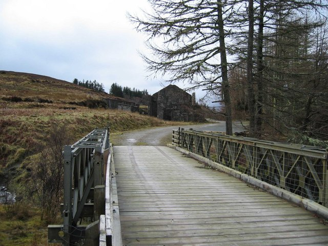 Inverarish Iron Ore Mine. Closed since c1920, this mine was connected by rail to the port and iron works at Suisnish. It was manned by German POWs during WWI.